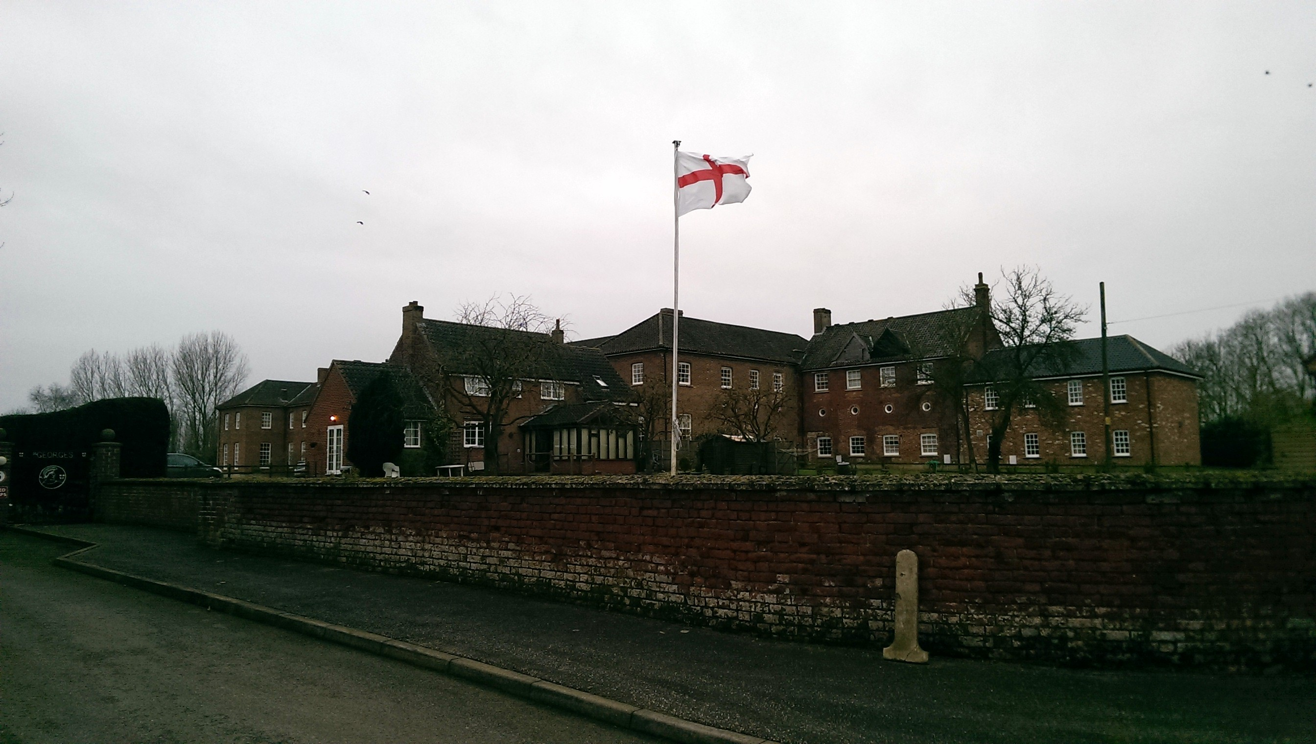 Former St. George's Hospital and School in Wicklewood, Norfolk